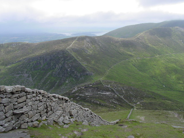 By the Mourne Wall on Slieve Bearnagh. View NE part way up Slieve Bearnagh; this view looks down on Hares Gap with Slievenaglogh beyond.